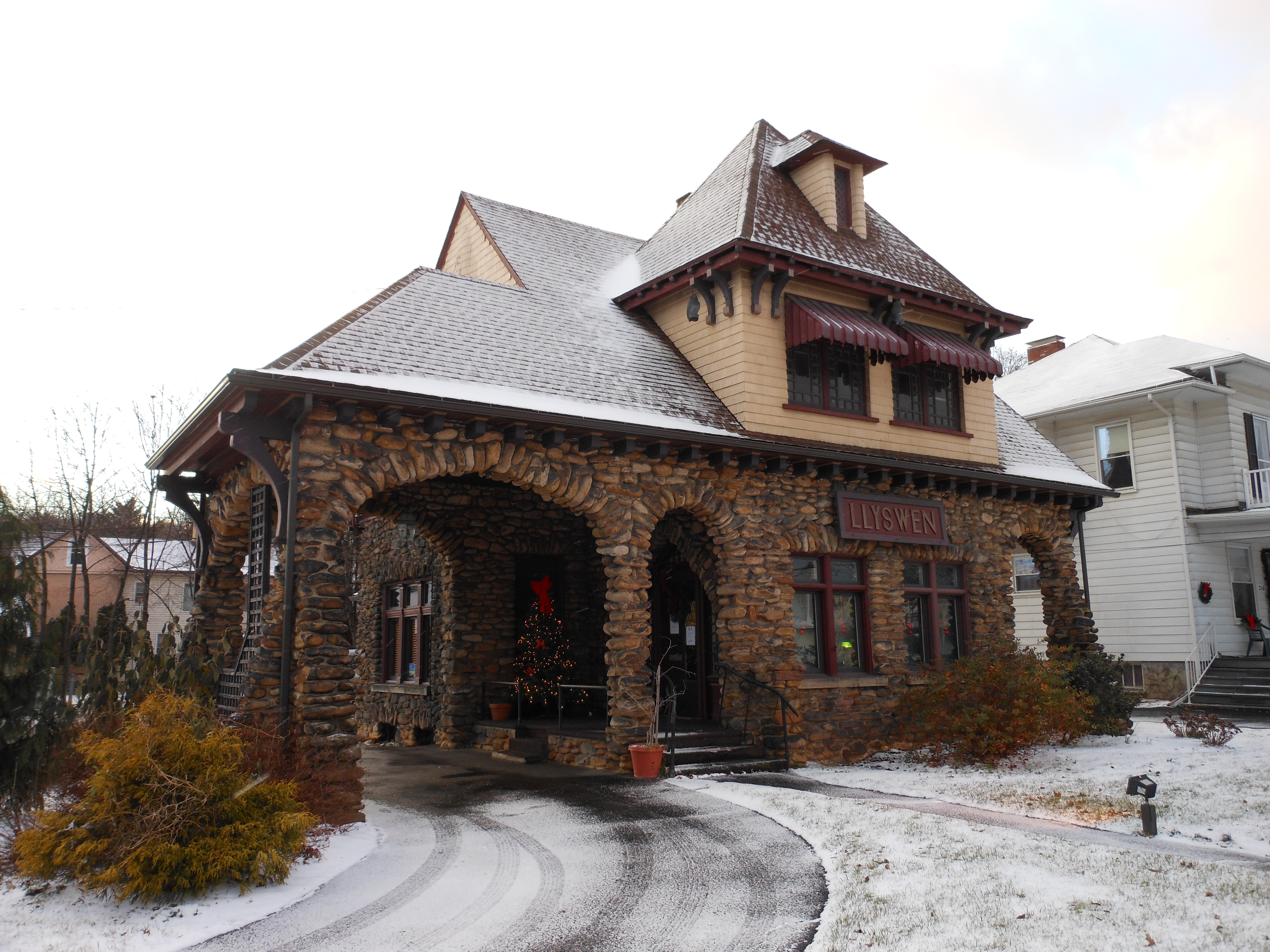 The original cable car station in Llyswen, Altoona, PA.